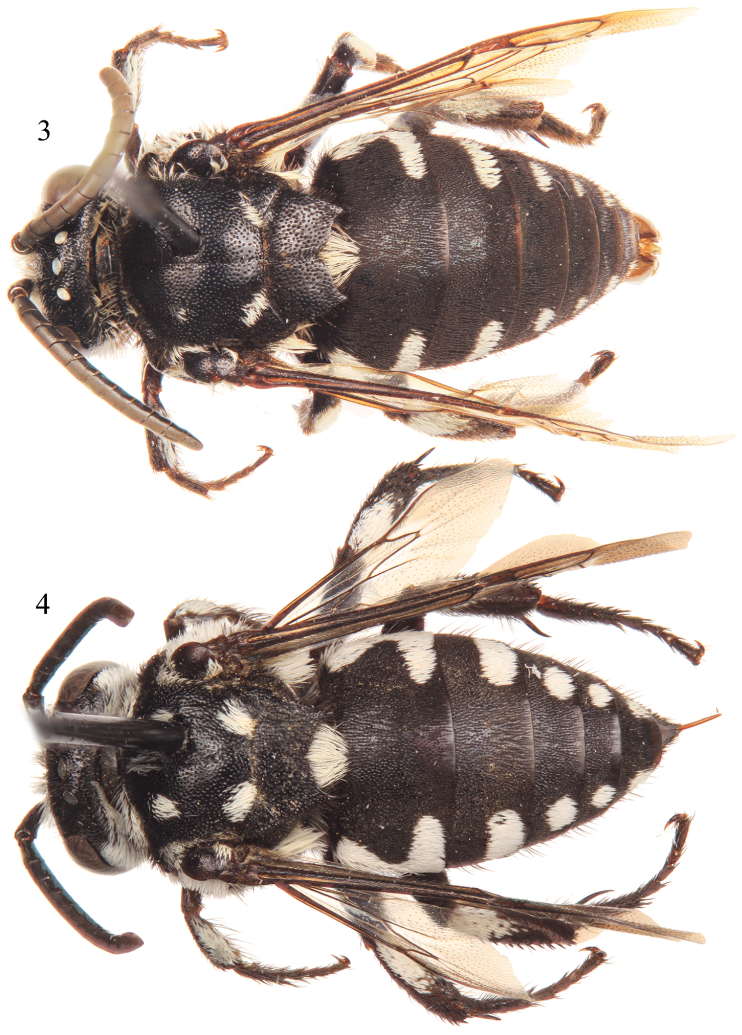 Dorsal habitus of Thyreus denolii from Boavista. 3 Male 4 Female.